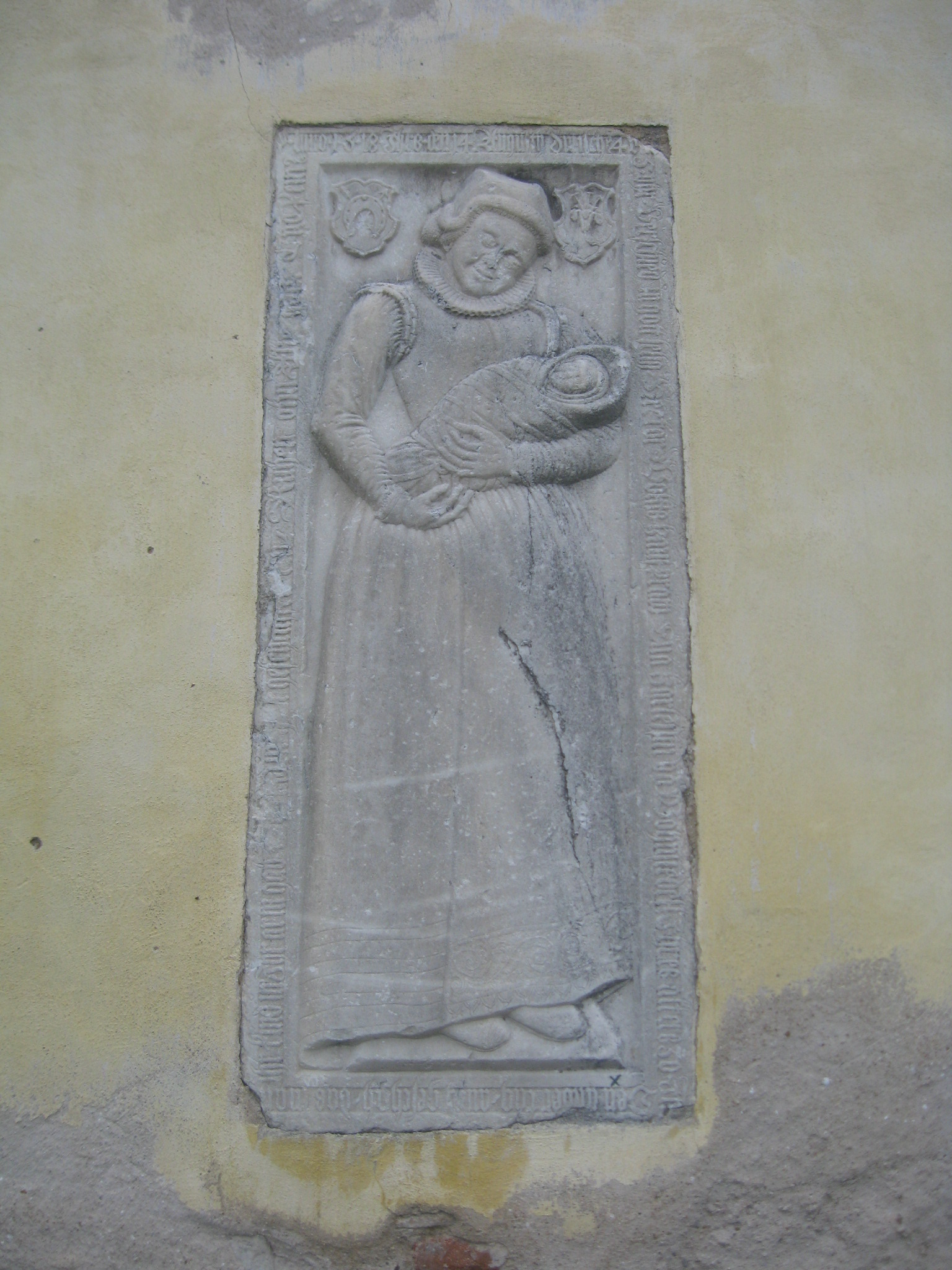 Chvojen, Czech Republic, District Benešov, Tombstone from 1618 on the outer Side of the Church